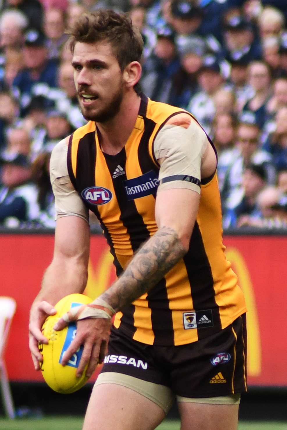 Kaiden Brand of Hawthorn during the 2019 AFL round 5 match between Hawthorn and Geelong at the Melbourne Cricket Ground on Monday, 22 April 2019 in Melbourne, Victoria.